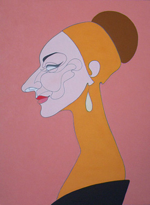 Portrait of the famous Greek soprano Maria Callas painted by Oleg Karuvits.